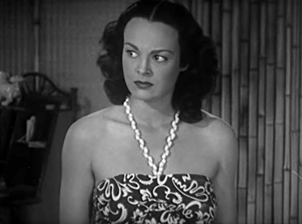 Screenshot of actress Katherine DeMille in the film Isle of Destiny (1940).